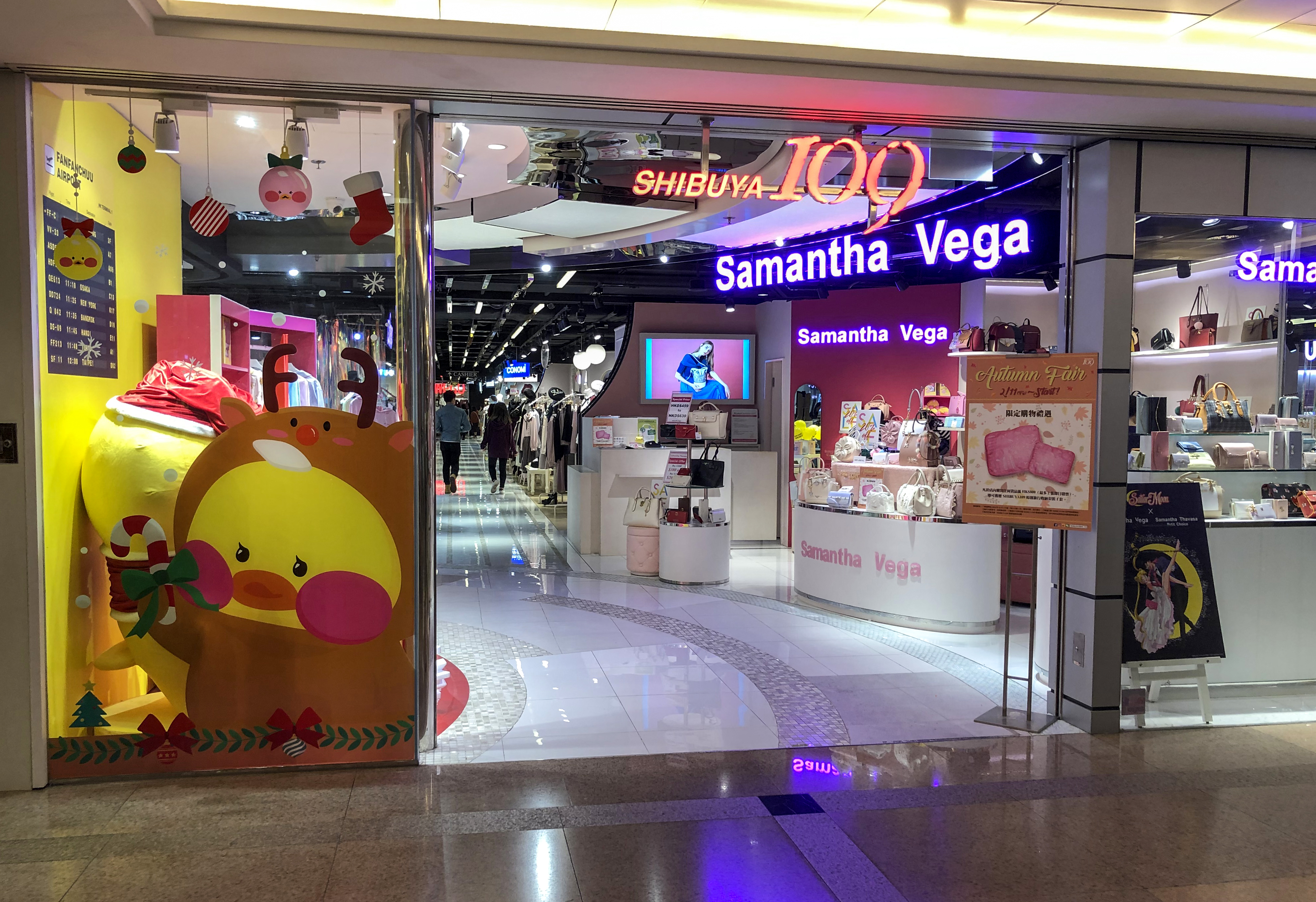 CONOMi, a retailer of clothes in the style of Japanese school girl uniforms, has its only shop outside Japan here.